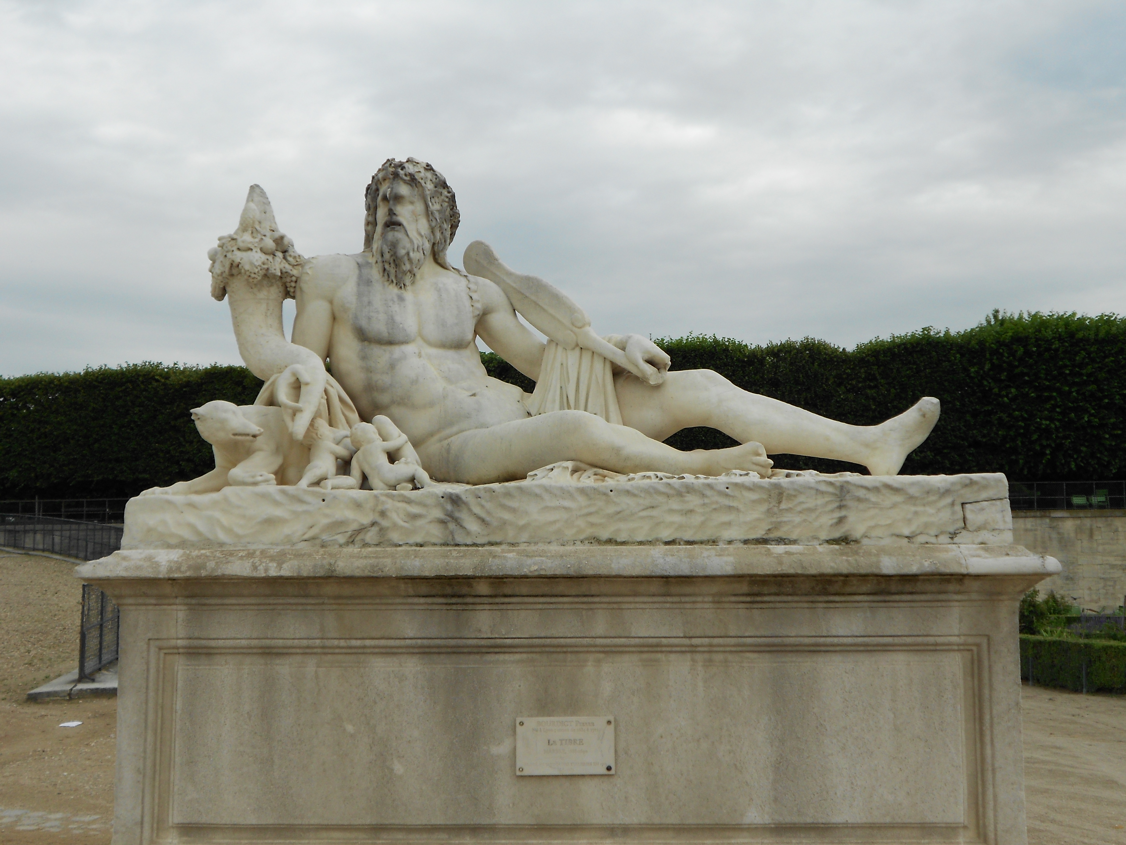 Statue of the Tiber river in the Jardin des Tuileries in Paris, France.